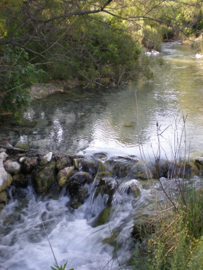 The Luchena River near its source